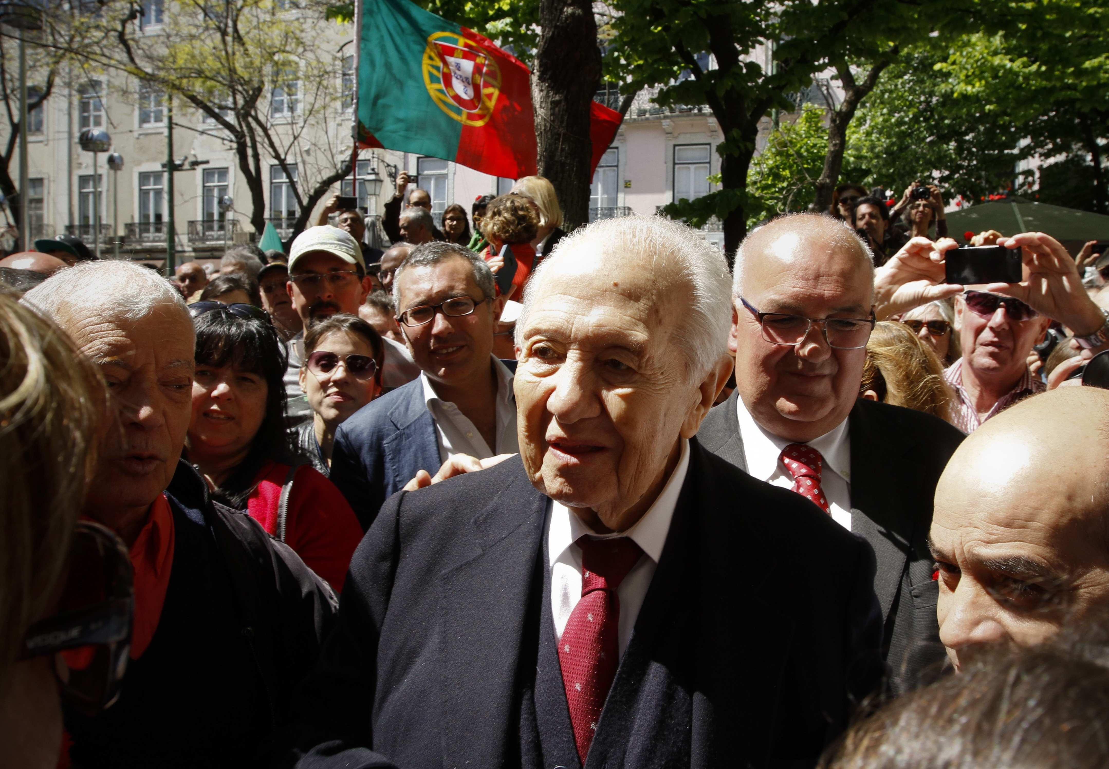 Mario Soares, former Prime Minister and President of Portuguese Socialist Party (PS) attending a rally to celebrate the 40th anniversary of the Carnation Revolution, 25 April 2014 in Lisbon